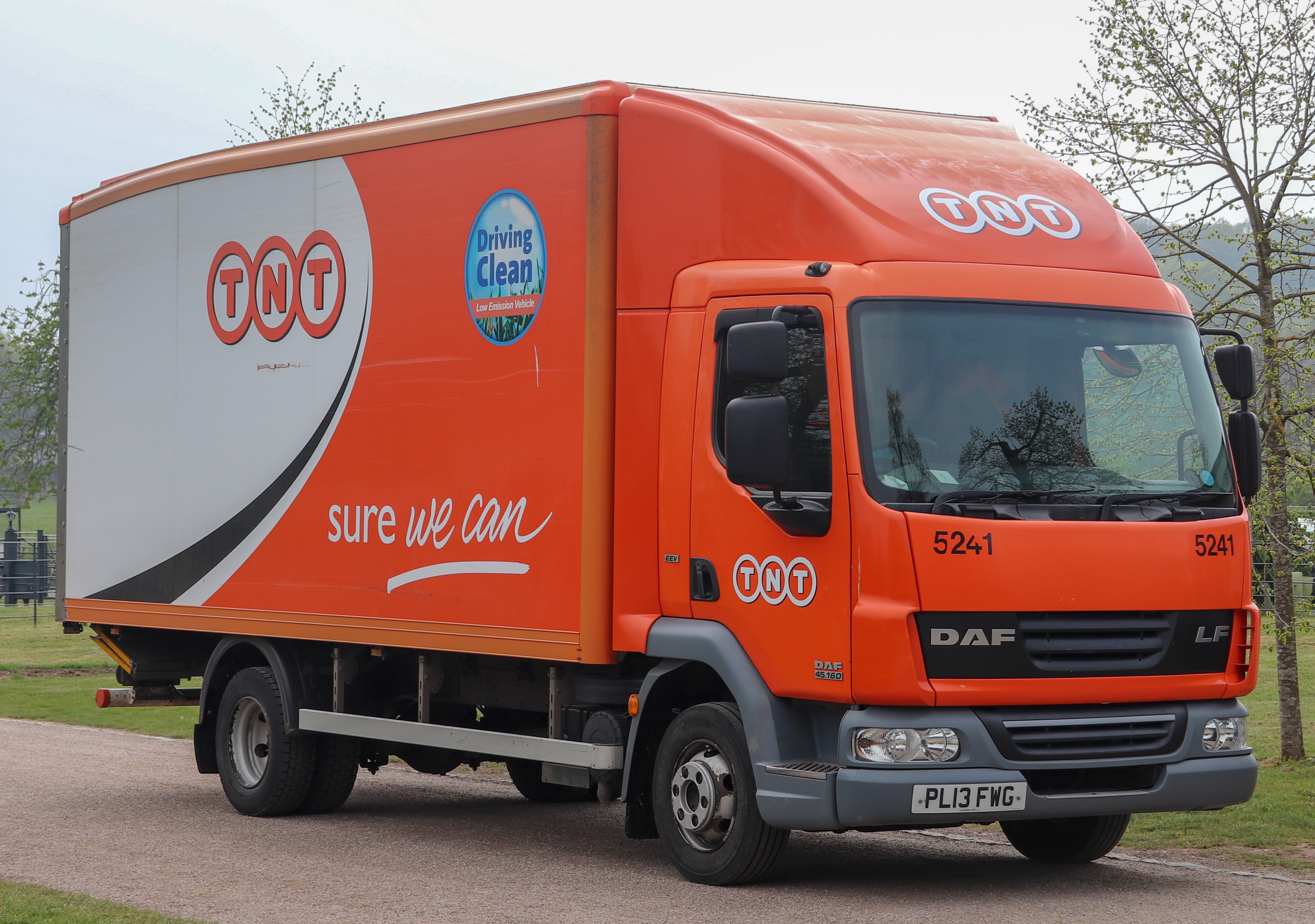 2013 DAF LF TNT 4.5 Taken at Shugborough Estate, Milford, Great Haywood, Staffordshire